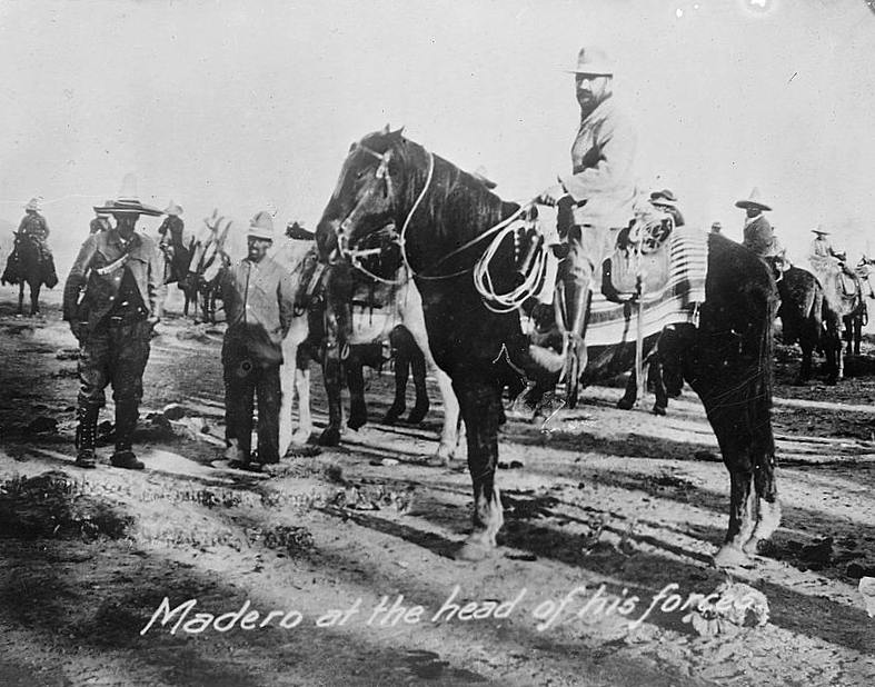 Bain News Service,, publisher. Madero at the head of his forces [between 1910 and 1915] 1 negative : glass ; 5 x 7 in. or smaller. Notes: Title from unverified data provided by the Bain News Service on the negatives or caption cards. Forms part of: George Grantham Bain Collection (Library of Congress). Subjects: Mexico Format: Glass negatives. Repository: Library of Congress, Prints and Photographs Division, Washington, D.C. 20540 USA, General information about the Bain Collection is available at Persistent URL: Call Number: LC-B2- 2224-8